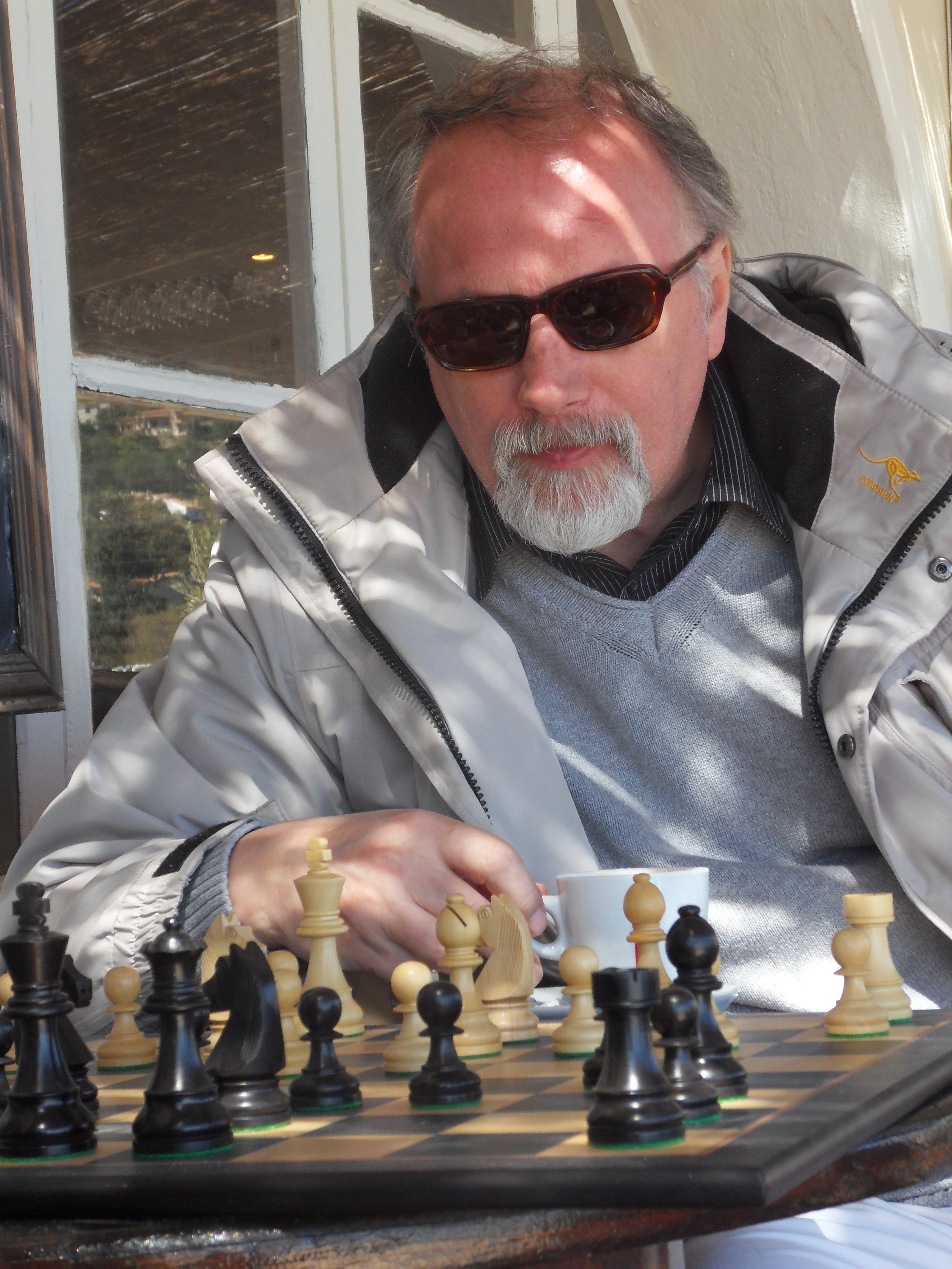 Arno Nickel, Côte d'Azur 2013